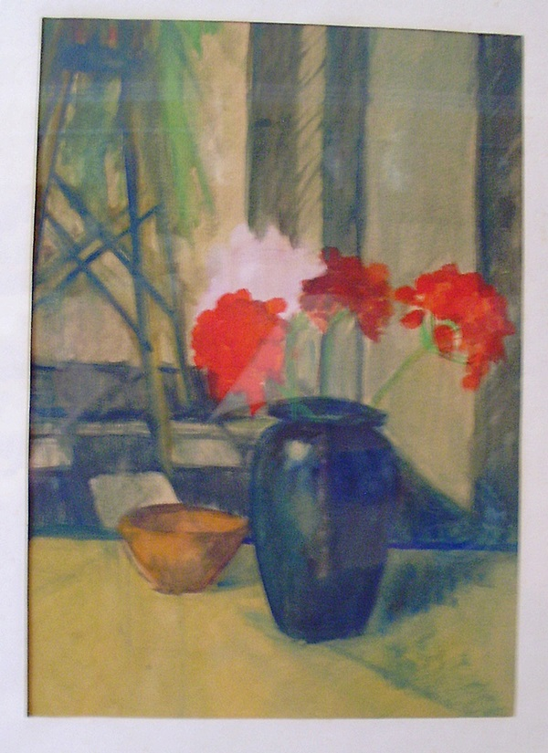 Angela Almásy Still Life with Flowers (Watercolor)